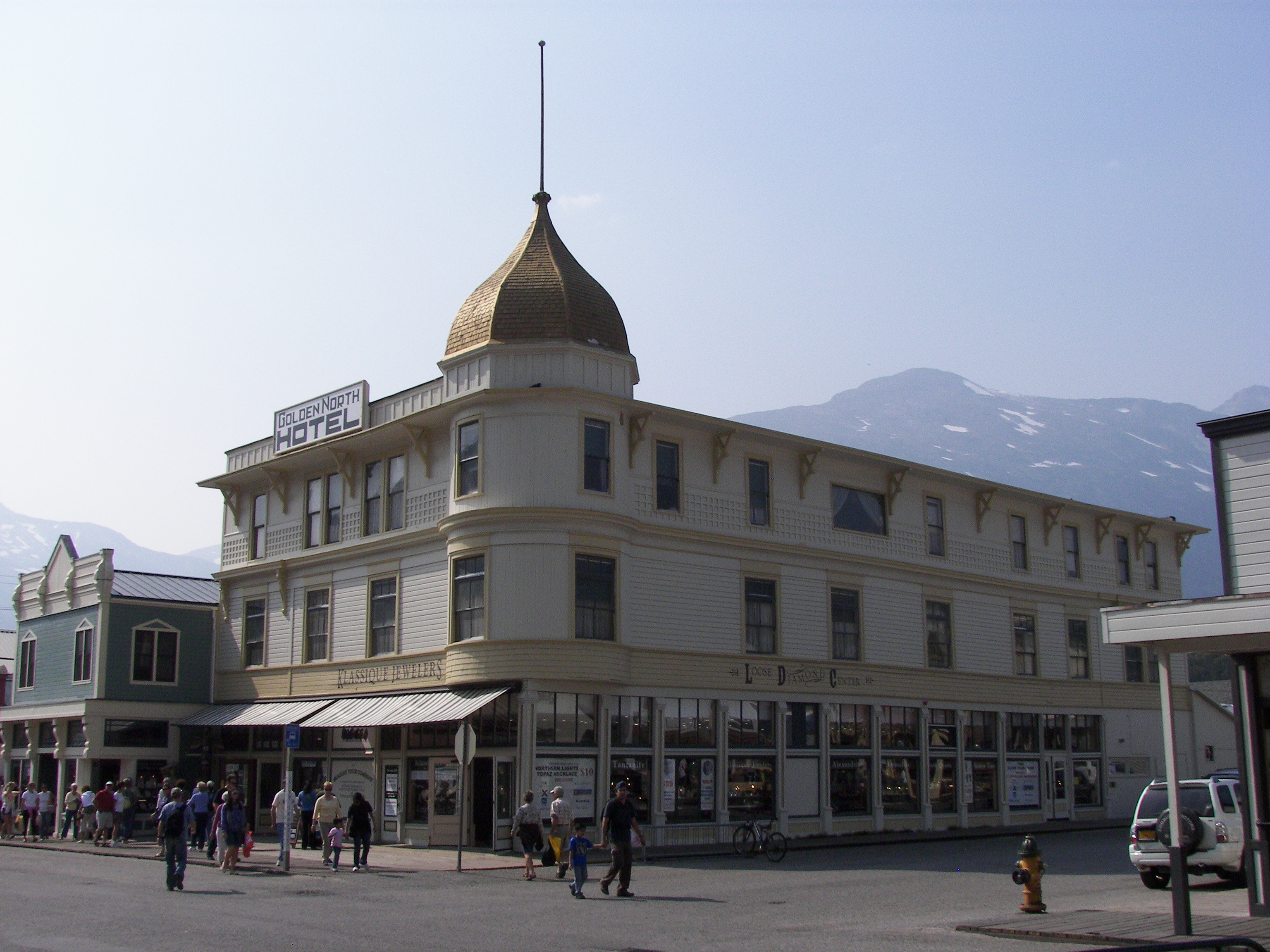 Golden North Hotel at Broadway and Third Avenue in Skagway, Alaska.